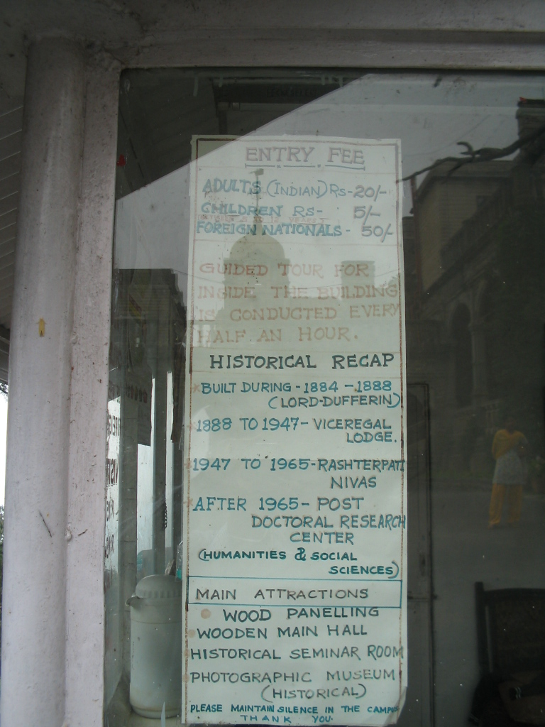 Rashtrapati Niwas, also known as Indian Institute of Advanced Study, Shimla, India. The Reception Counter for Visitors. A nominal Rupees20/- per head ticket is charged (as on July2007) for a guided tour of the ground floor of the main block. Notice the beautiful reflection on the chart.